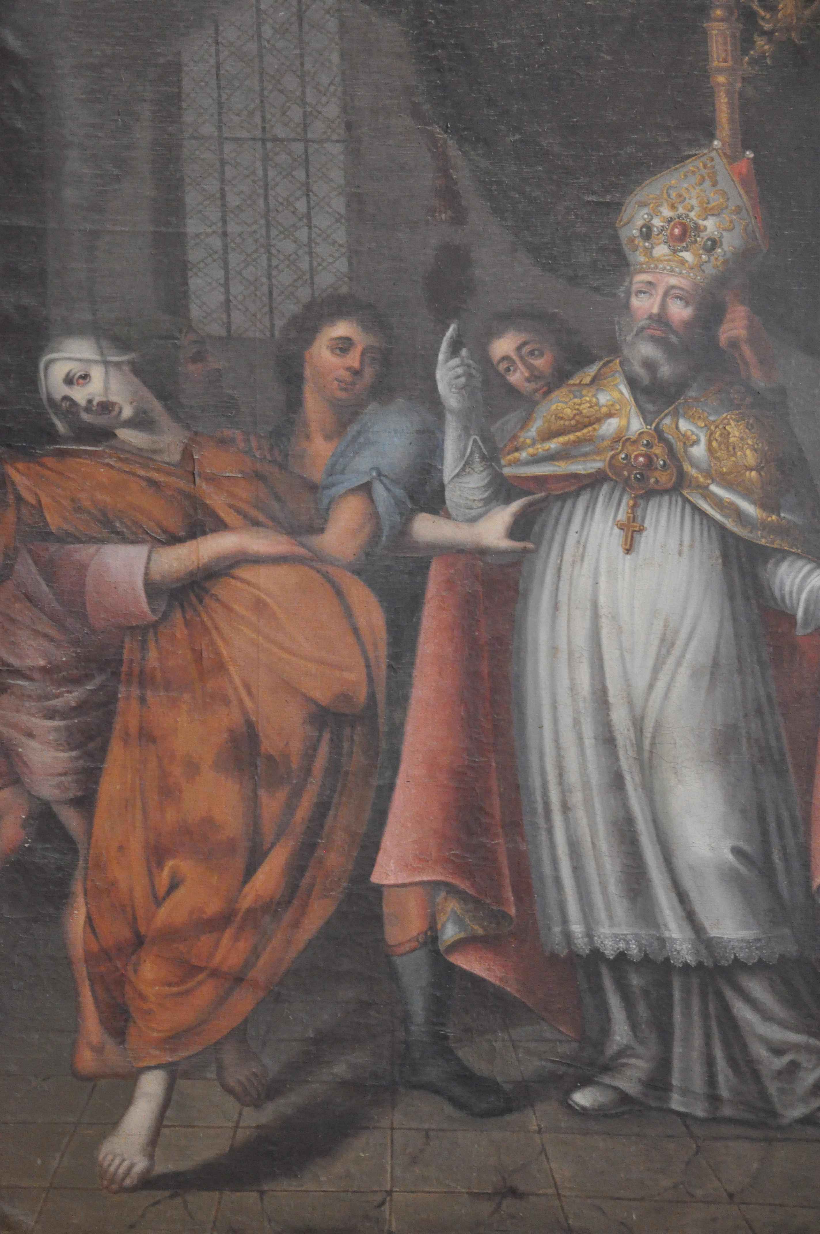 Cathedral of Bayeux (France, Normandy), exorcism by Saint Exupère (painting by Rupalley)